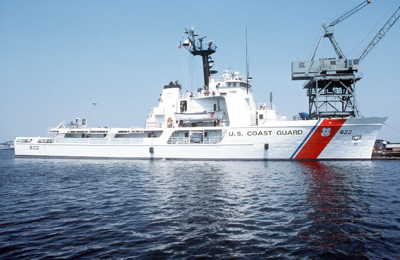 "Coast Guard Cutter Courageous (WMEC-622) in for repair at the Coast Guard Yard at Curtis Bay, MD." (starboard profile)